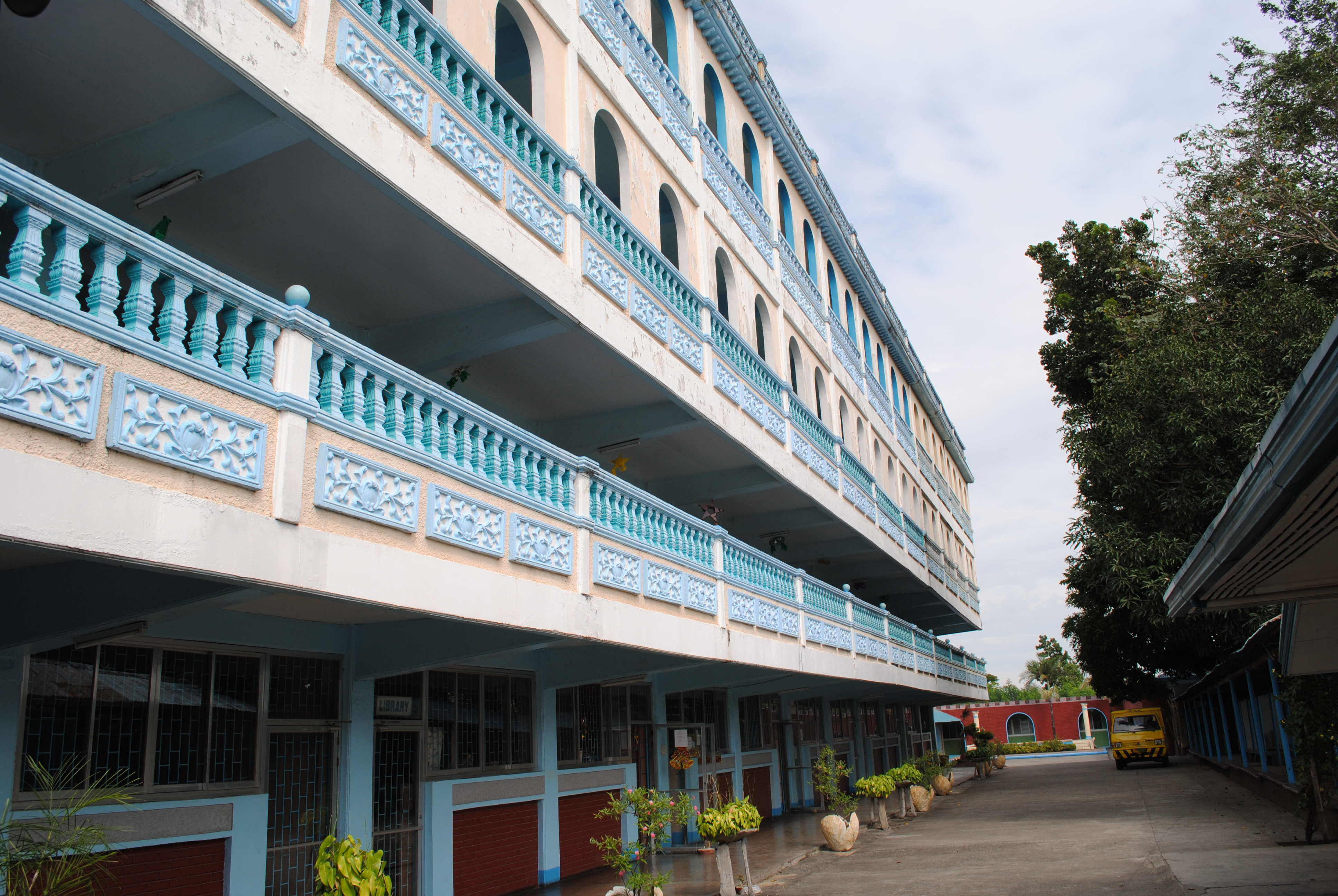 School's Main Building